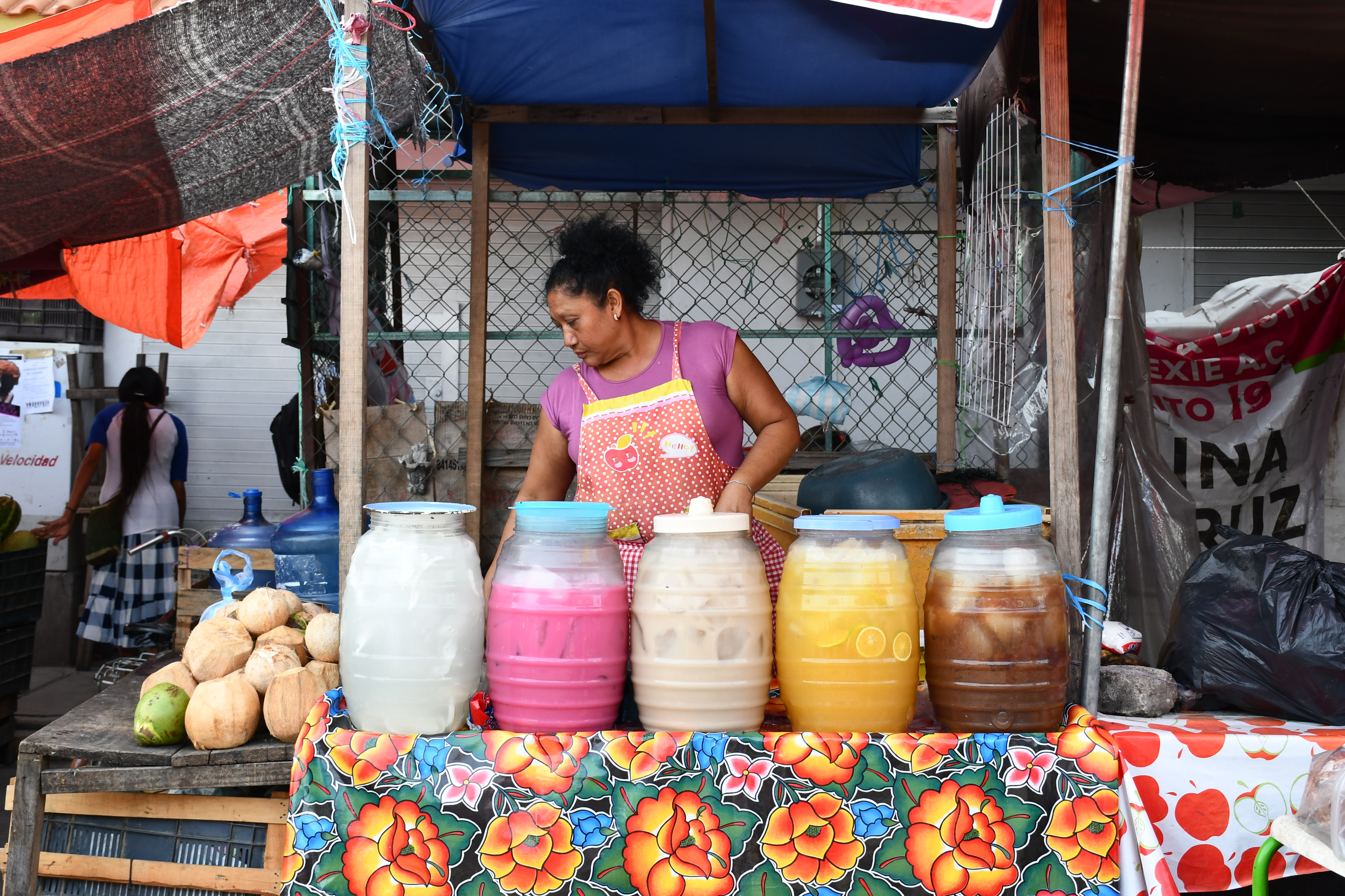 Aguas frescas (litterally fresh waters : non-alcoholic beverages made from fruits, cereals, flowers, or seeds blended with sugar and water) at the market of Juchitán de Zaragoza (Oaxaca, Mexico).